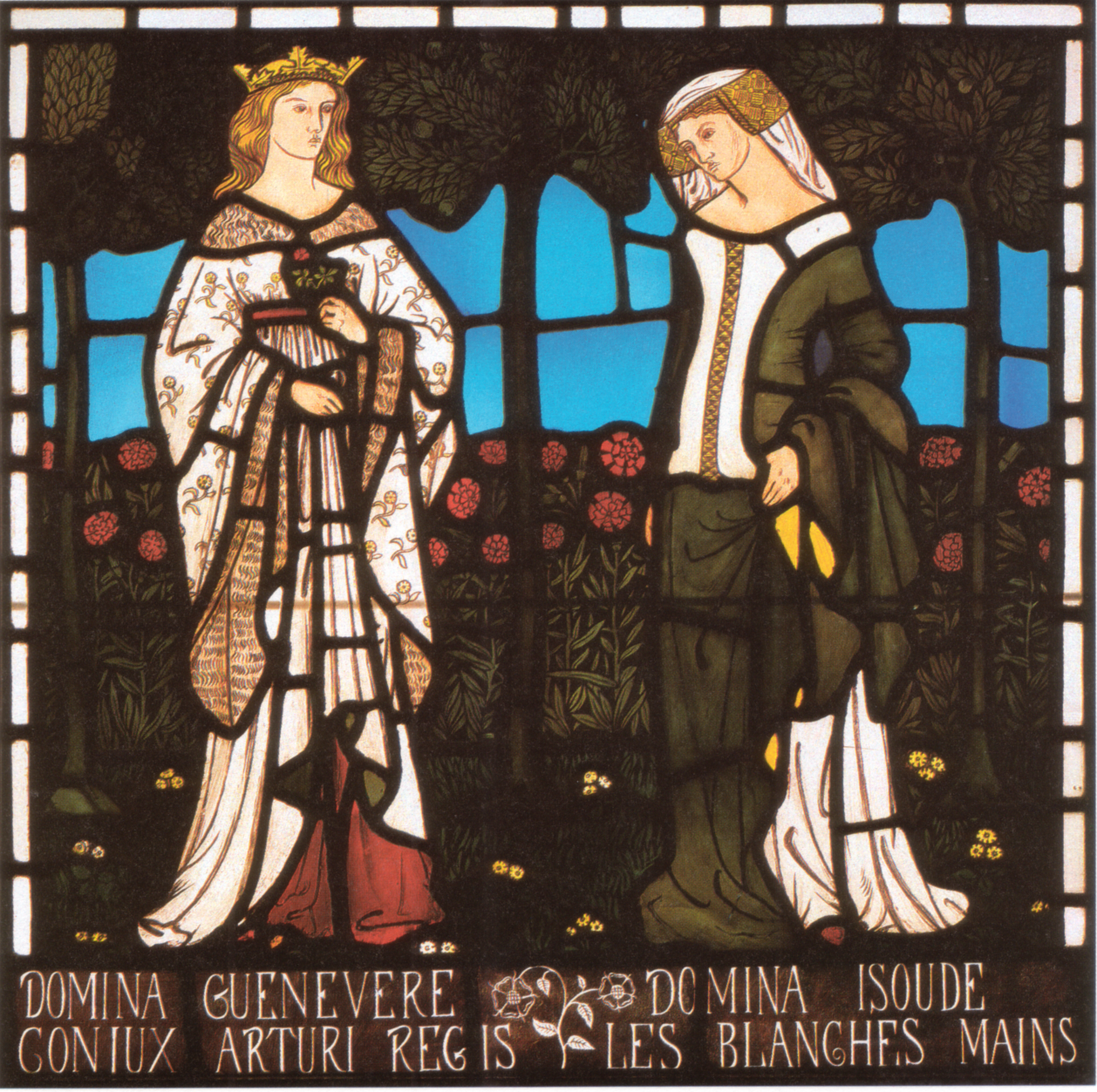 Queen Guenevere and Isoude Les Blanches Mains, one of a set of 13 stained glass panels commissioned from Morris, Marshall, Faulkner & Co. by Walter Dunlop for Harden Grange near Bingley Yorkshire. This is one of four panels designed by Morris. Other panels in the series were designed by Arthur Hughes, Valentine Prinsep, Dante Gabriel Rossetti, Sir Edward Burne-Jones, and Ford Madox Brown. Bradford Art Gallery.